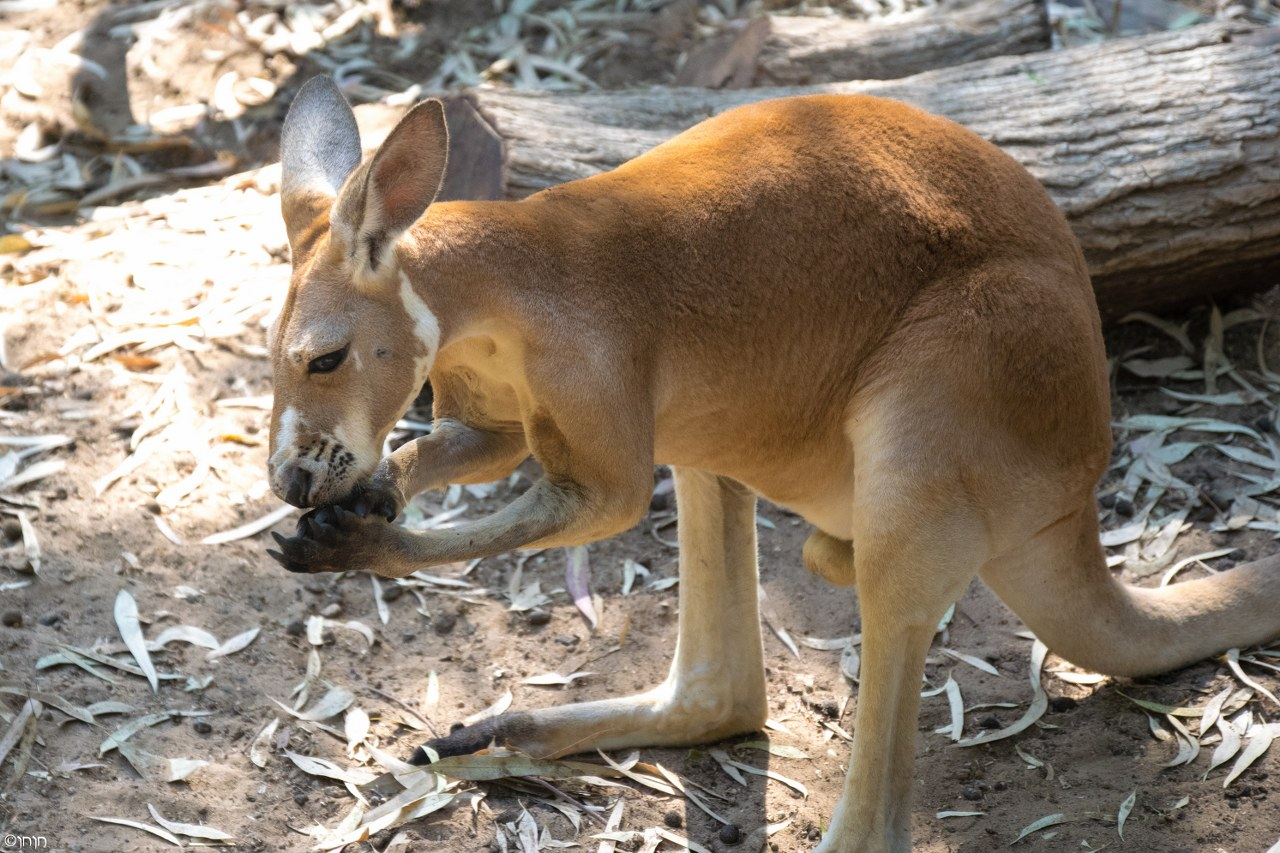 kangaroo